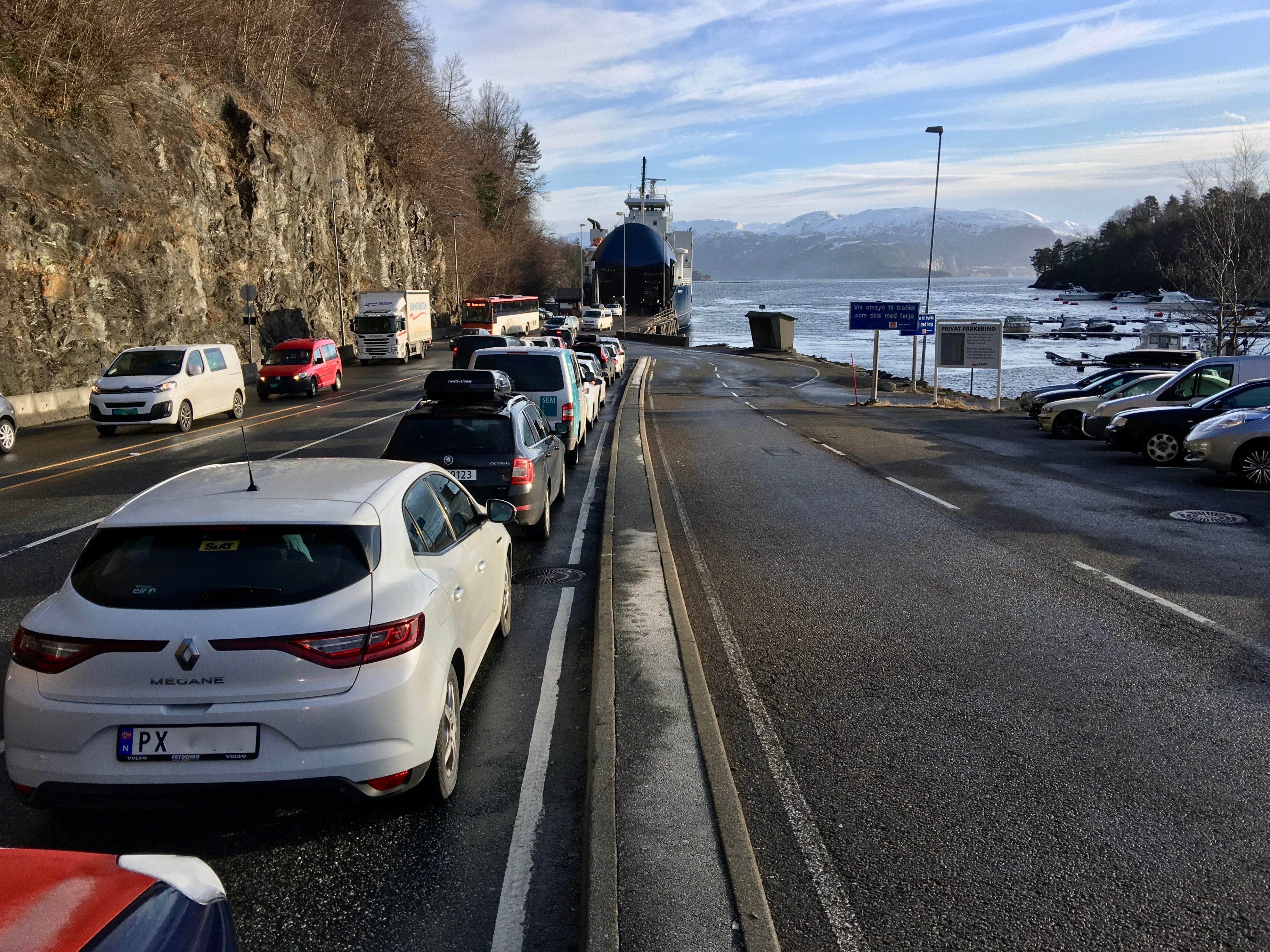 Cars leaving and waiting for entering the ferry MF "Marstein" ("Masfjord") at Hatvik (Hattvik) ferry terminal in Os Municipality, sailing over Fusafjorden (Eikelandsfjorden) to Venjaneset, Fusa, Hordaland, Norway. Photo taken on the morning of 2018-03-20.